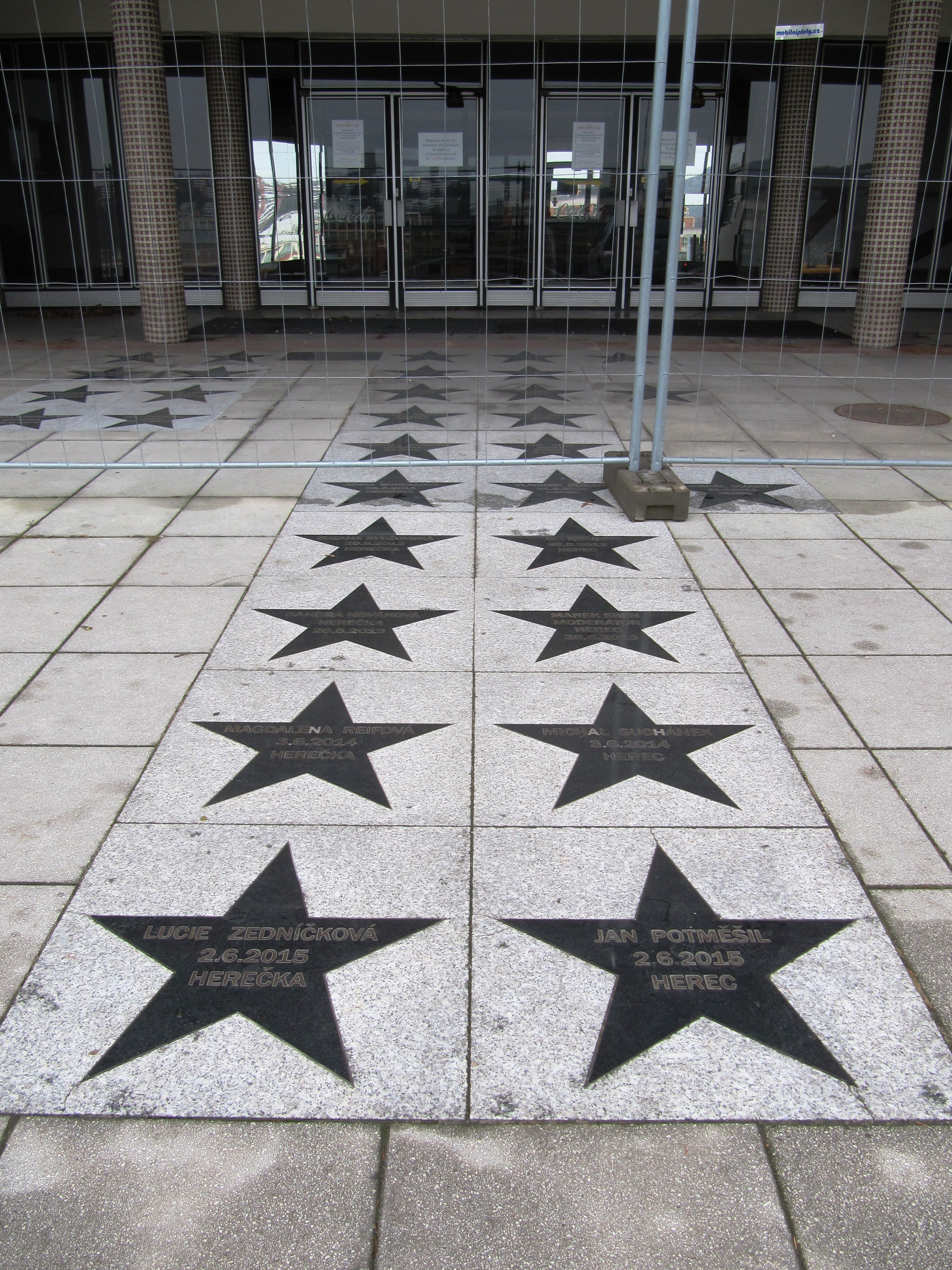 Zlín, Czechia, walk of fame.